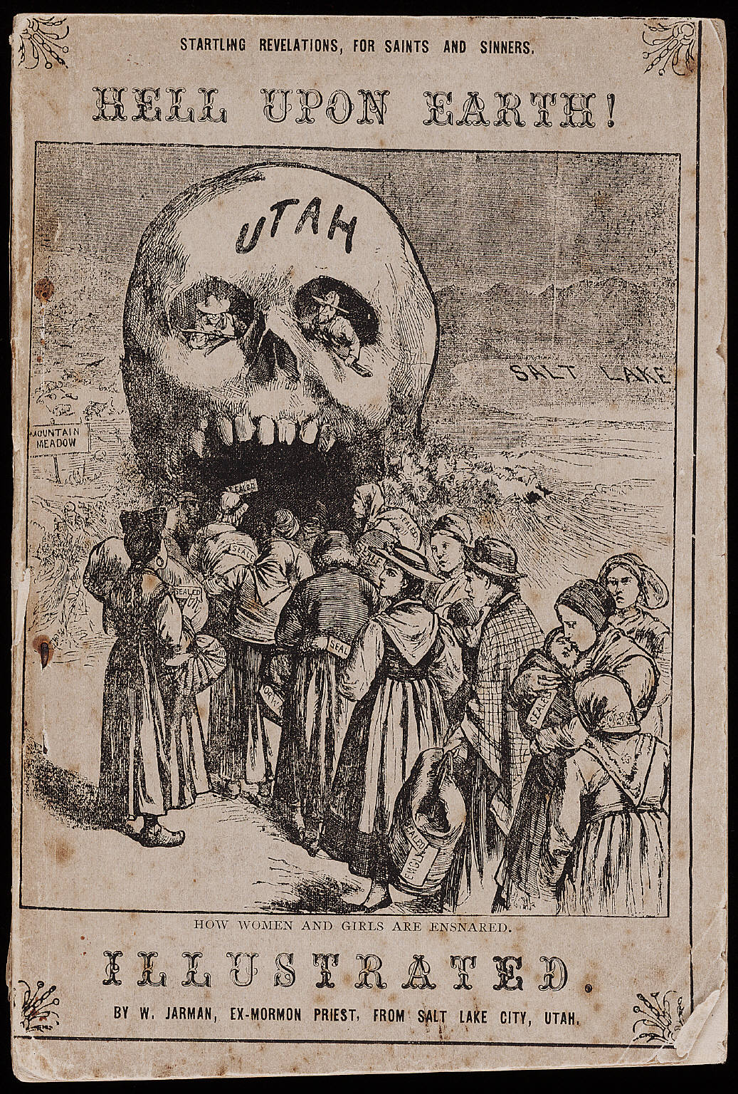 "Startling Revelations for Saints and Sinners, Hell Upon Earth, How Women and Girls are Ensnared. U.S.A., Uncle Sams abscess; or, Hell upon earth for U.S., Uncle Sam. By W. Jarman ... who suffered twelve years in the Mormon hell on earth, as one of the "Virgins without guile," and a priest after the order of Melchizedek." By William Jarman, printed by H. Leducs Steam Printing Works, Exeter, England. Yale Collection of Western Americana, Beinecke Rare Book and Manuscript Library, Yale University, New Haven, Connecticut.